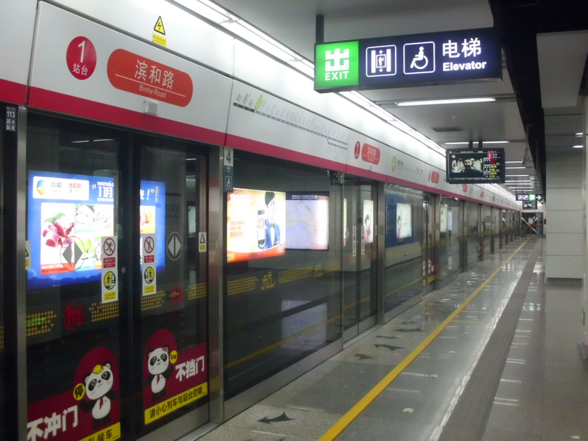 Binhe Road Station